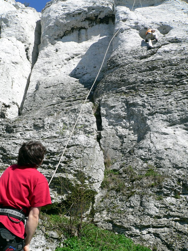 Top-roping at Góra Birów - Podzamcze